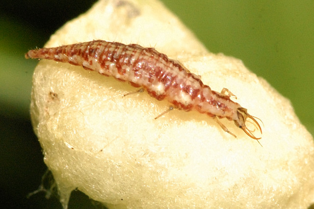 Picture taken in Commanster, Belgian High Ardennes . Species: Chrysoperla sp. larva